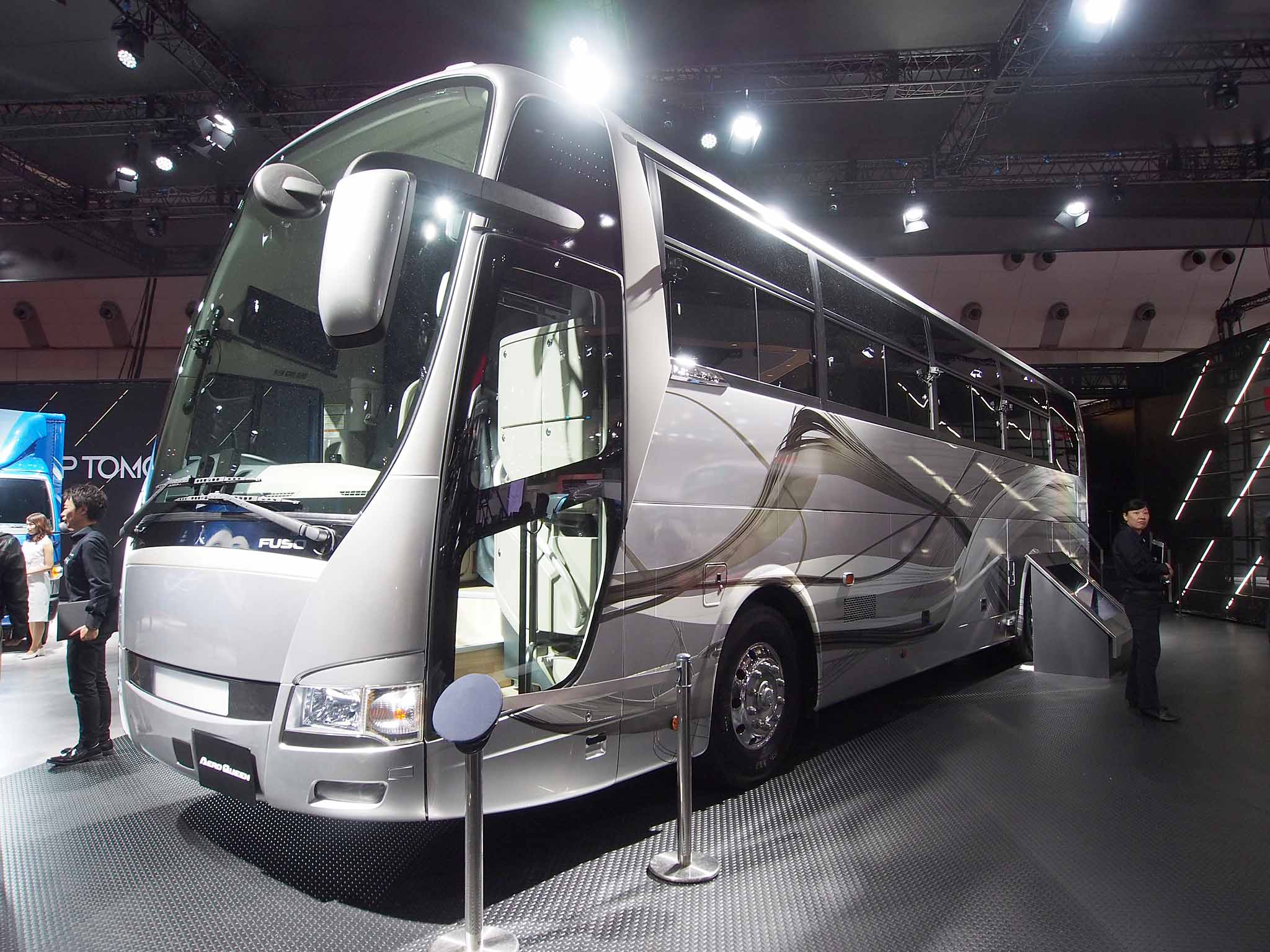 Mitsubishi Fuso Aero Queen, displayed at Tokyo Motor Show 2017. Model:MS06GP